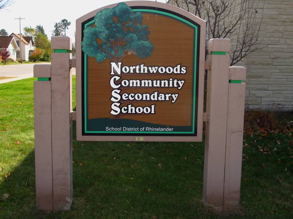 The sign of the Northwoods Community Secondary School, an American Charter School in the Rhinelander School District.